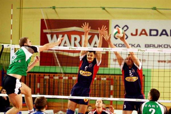 Martin Sopko (green jersey) - volleyball player (SVK)